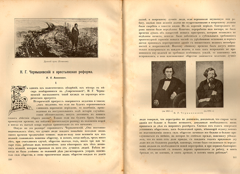 “Chernyshevsky and peasant's reform”, the article by Nikolay Annensky